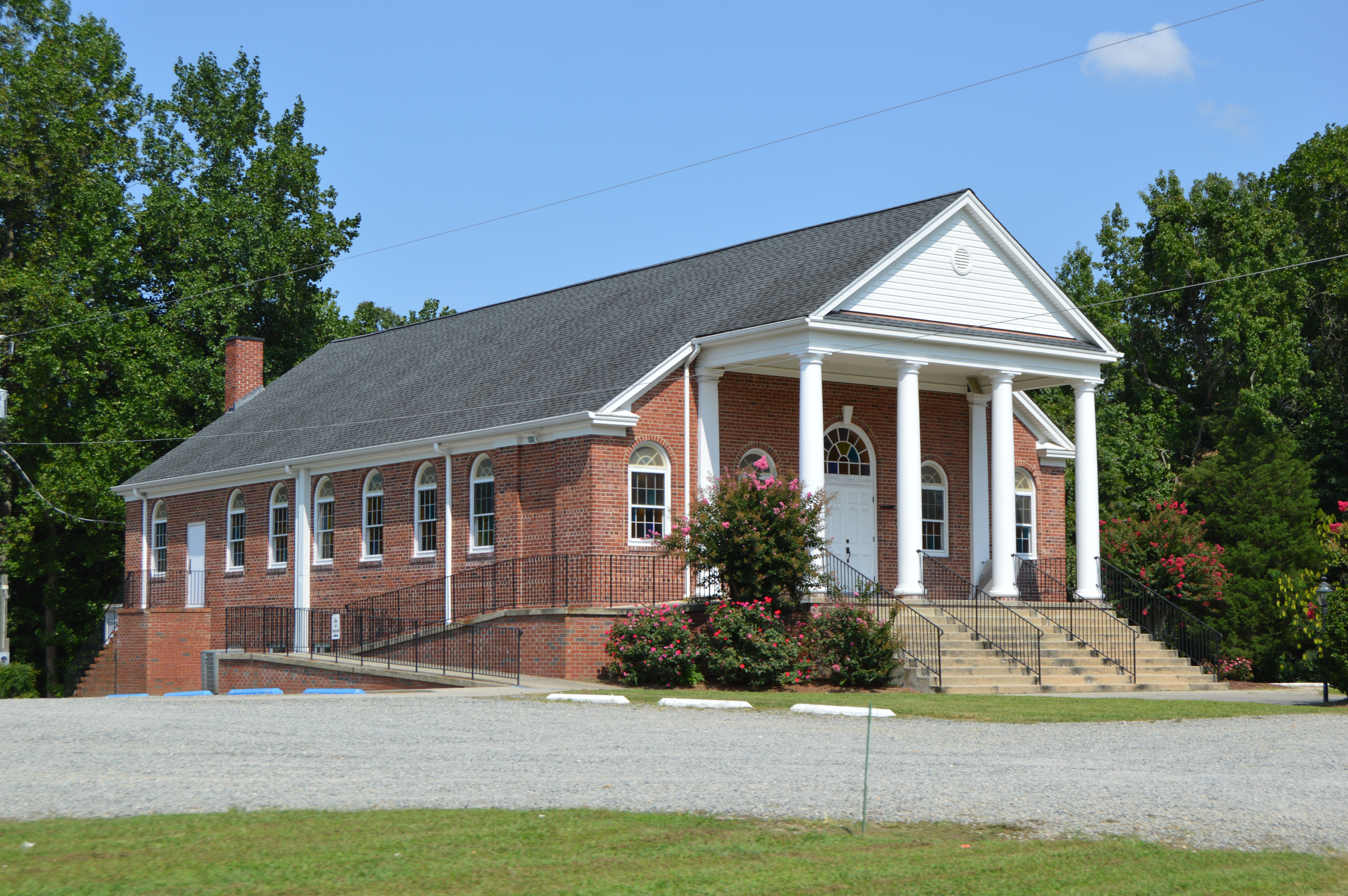 Front and western side of the Northern Neck Baptist Church, located on State Route 202 at Callao in Northumberland County, Virginia, United States.